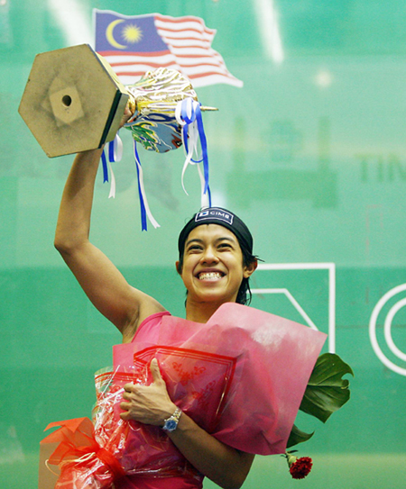 CIMB Malaysia Open Womens Champion, Nicol David lifting up her trophy after winning the competition.